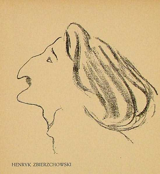 Henryk Zbierzchowski